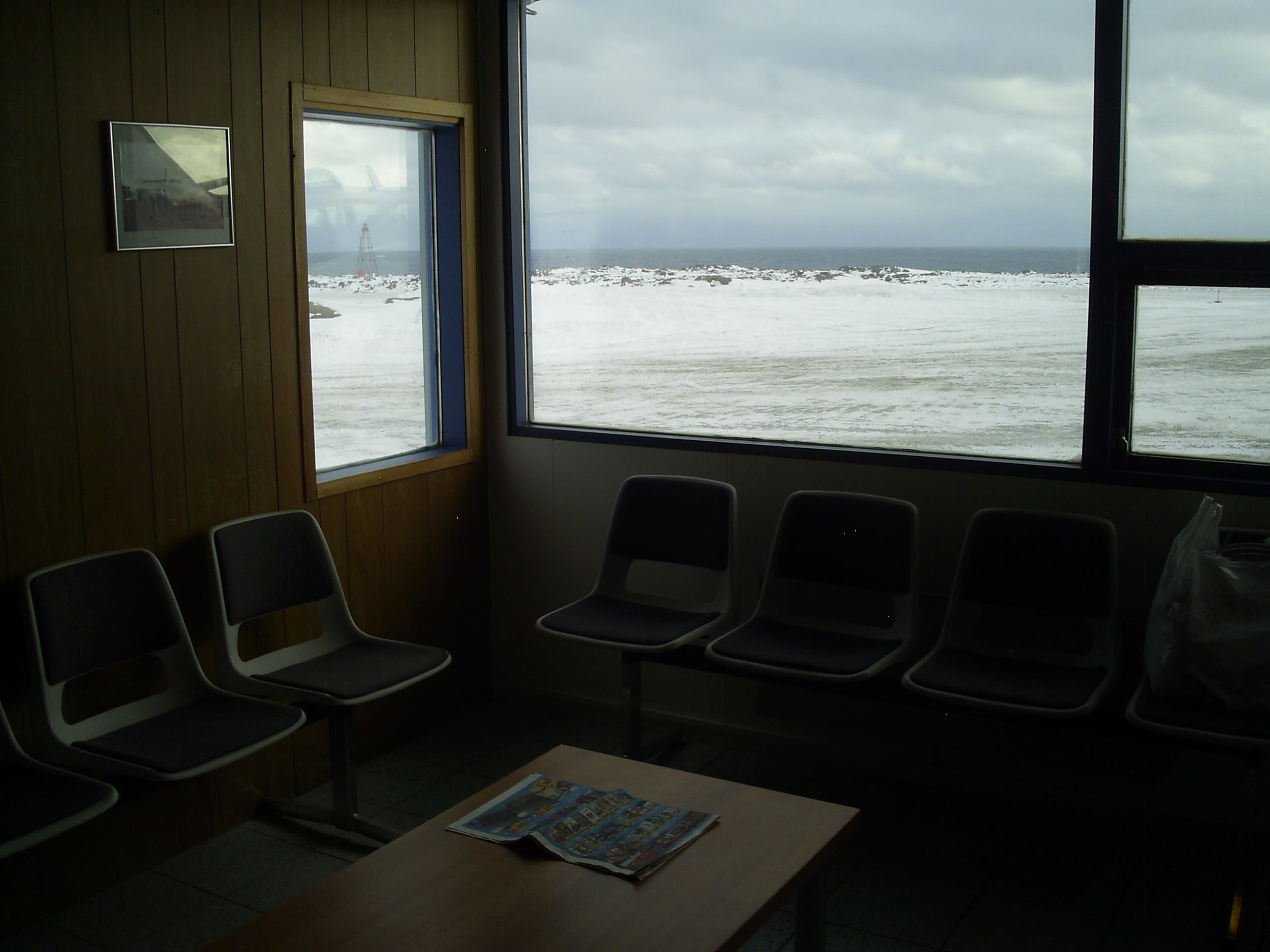 The terminal and gate area for Gjögur airport for passengers in Iceland.